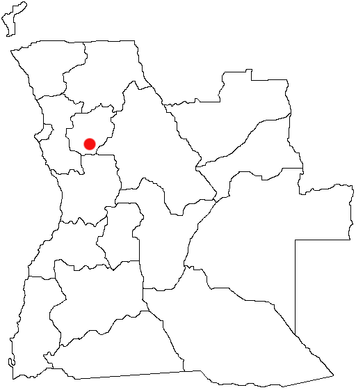 N'dalatando, Angola Location Map; created with the GIMP. Made by User:Acntx.